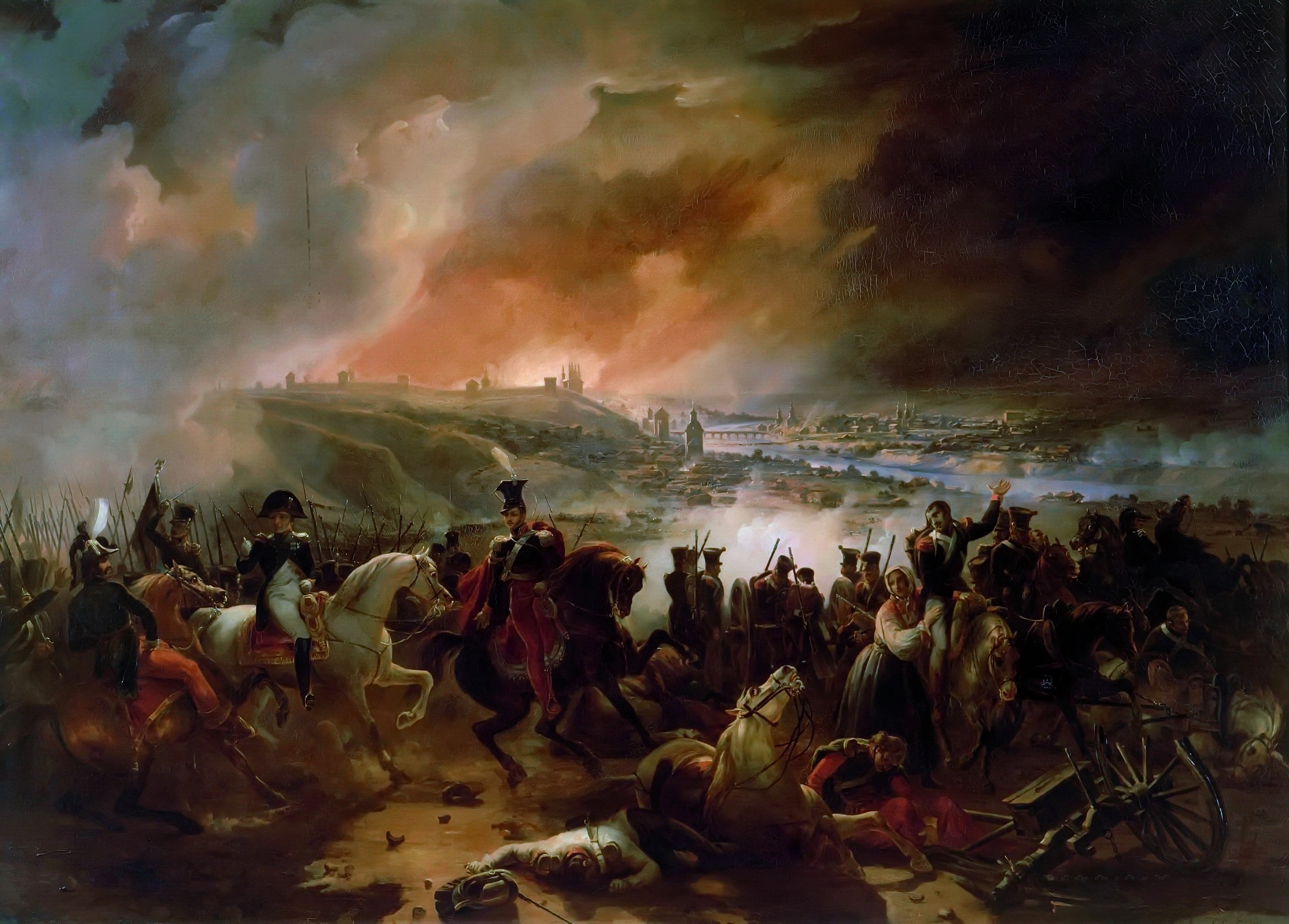 Napoleon and prince Poniatowski at the battle of Smolensk, during the Russian Campaign of 1812